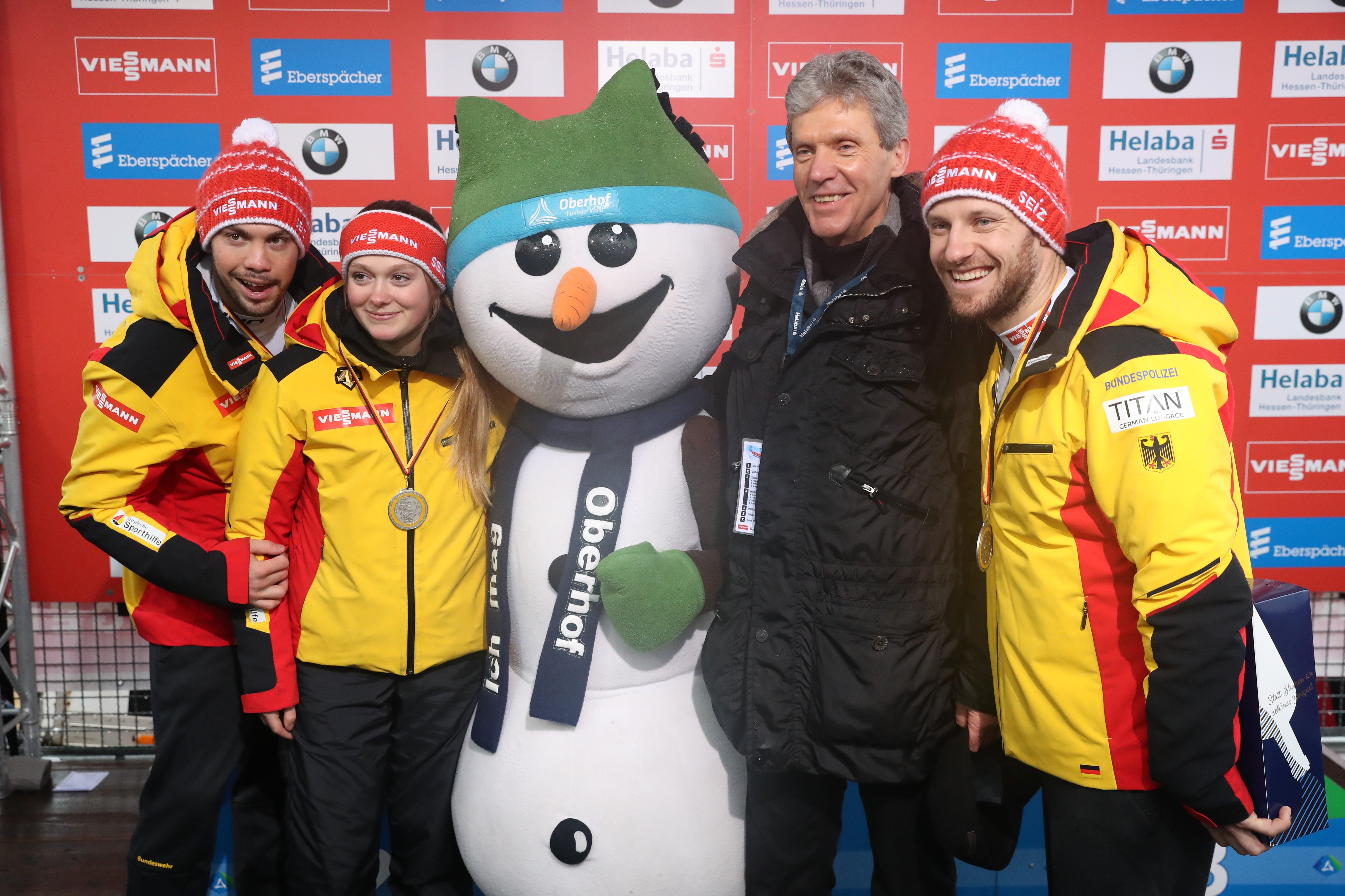 Victory Ceremonies (Women's and Team Relay) at Saturday at the 2019/20 Oberhof Luge World Cup